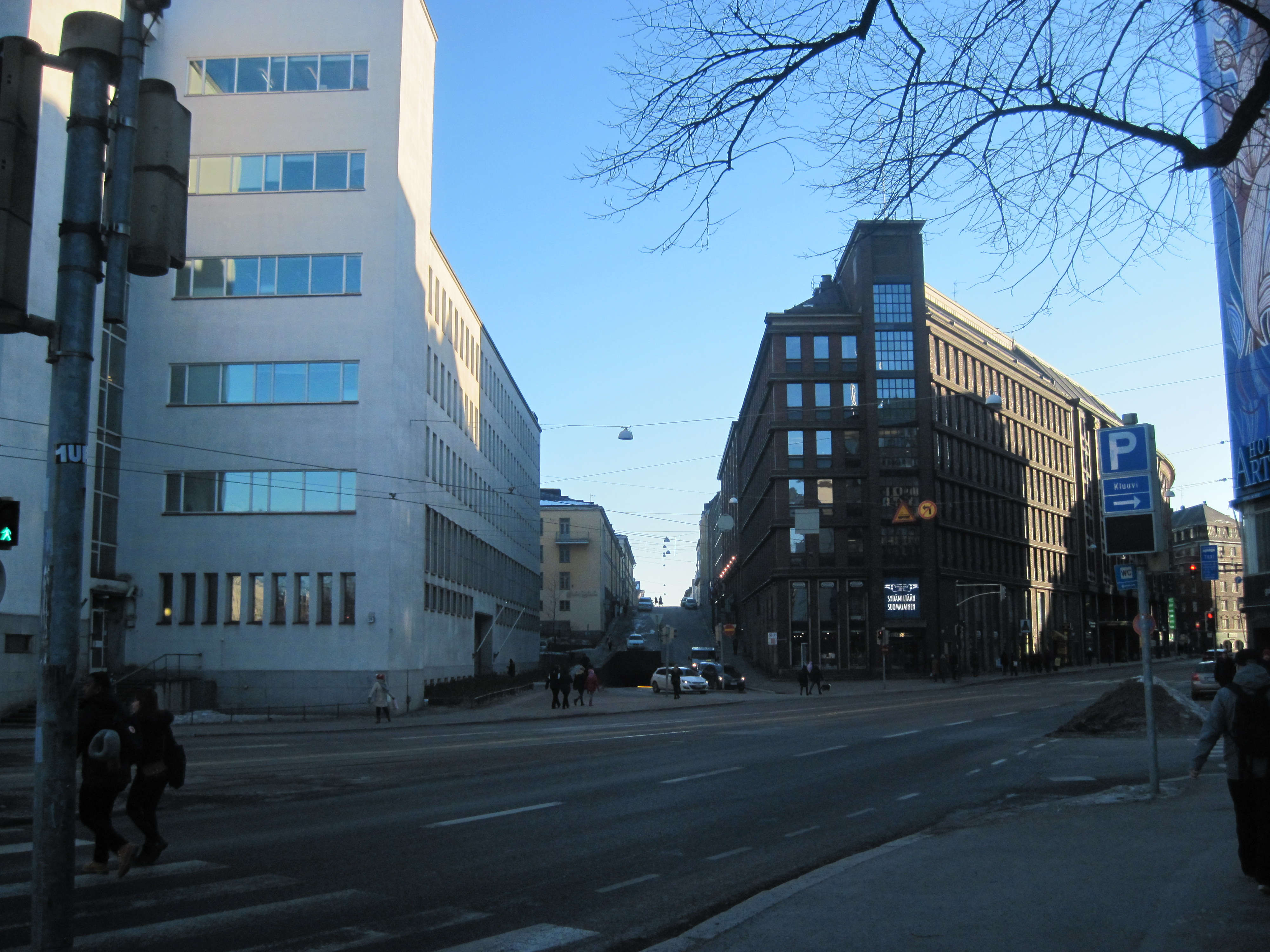 Fabianinkatu in Helsinki seen from its northern end